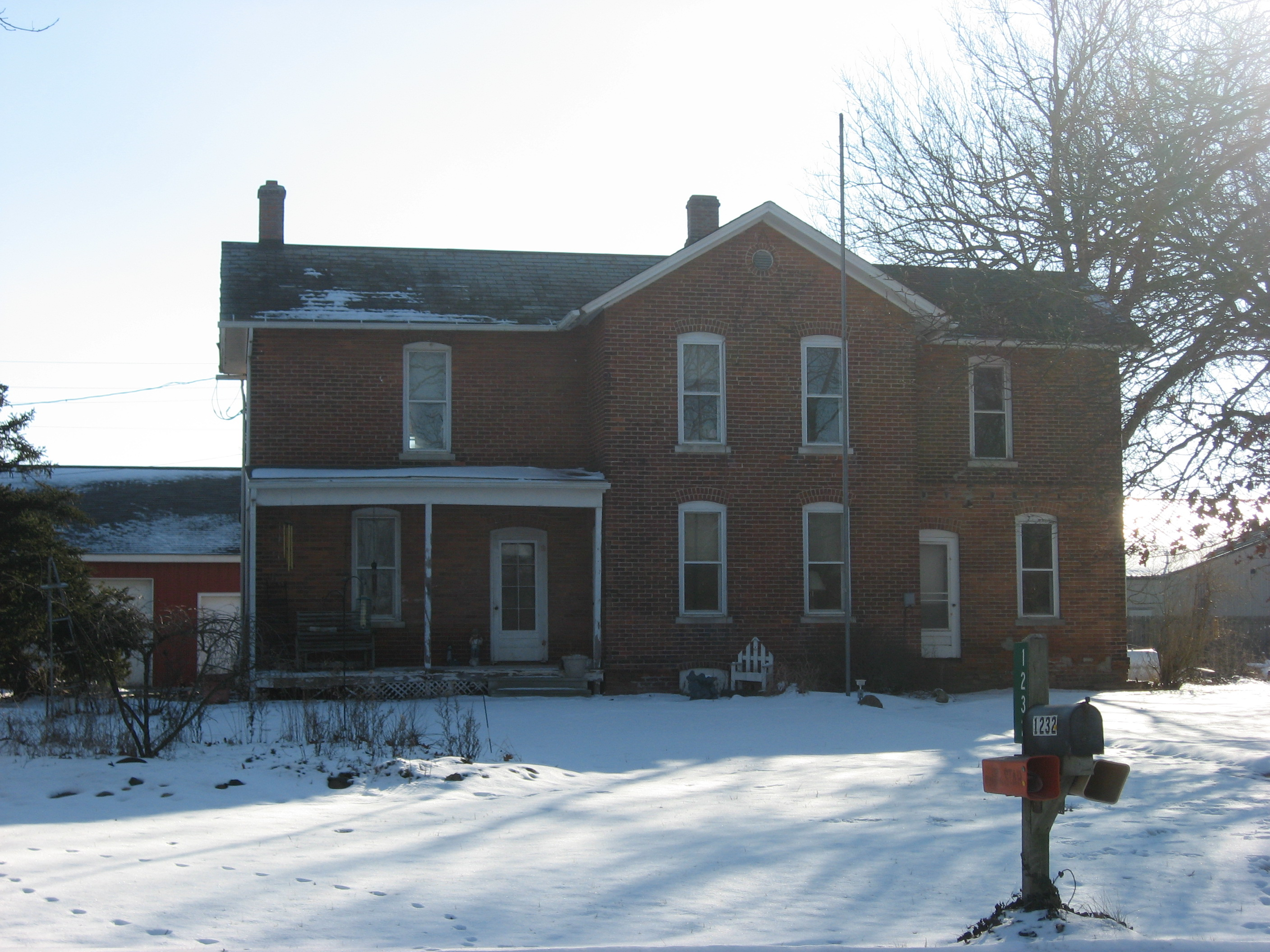 Front of the J.H. Haag House, located at 1232 County Road 54 in Garrett, Indiana, United States. Built in 1875, it is listed on the National Register of Historic Places.